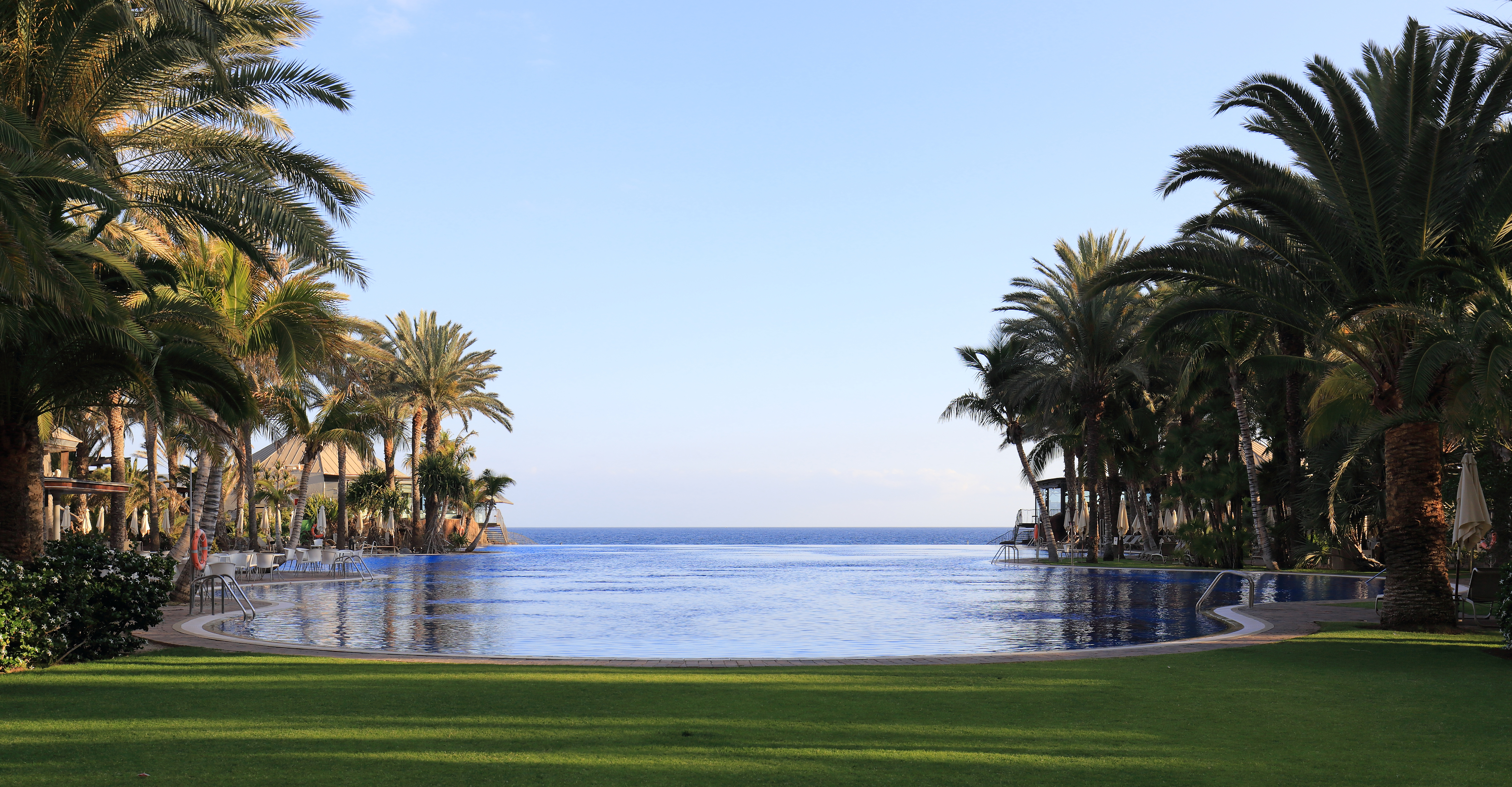 Lopesan Costa Meloneras Resort, Maspalomas, Gran Canaria: Infinity Pool.